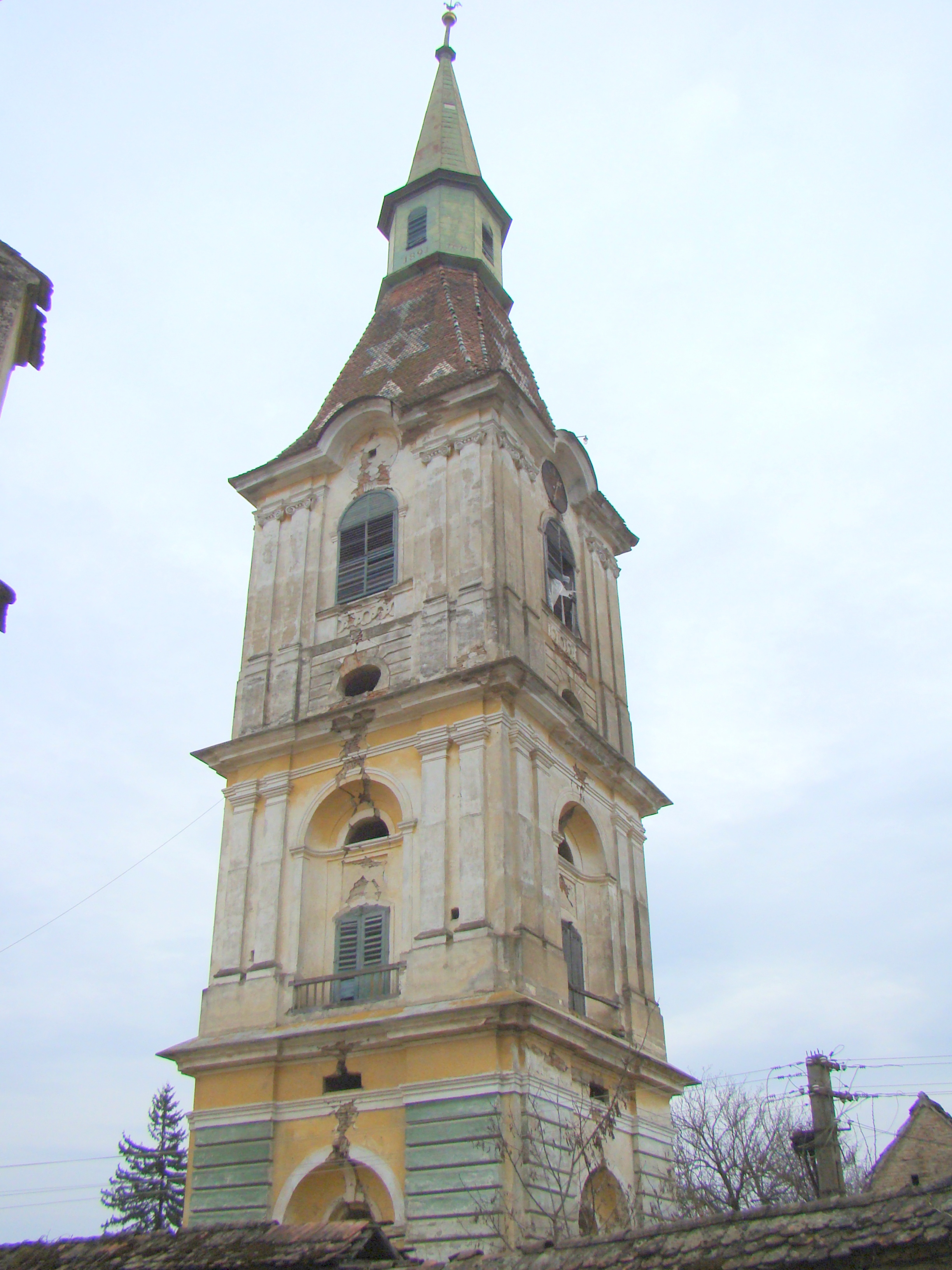 Lutheran church in Daia, Mureș county, Romania